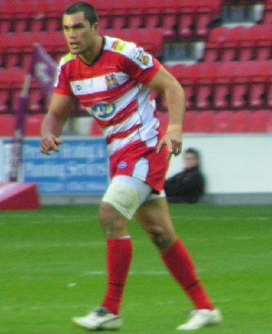 David Vaeliki